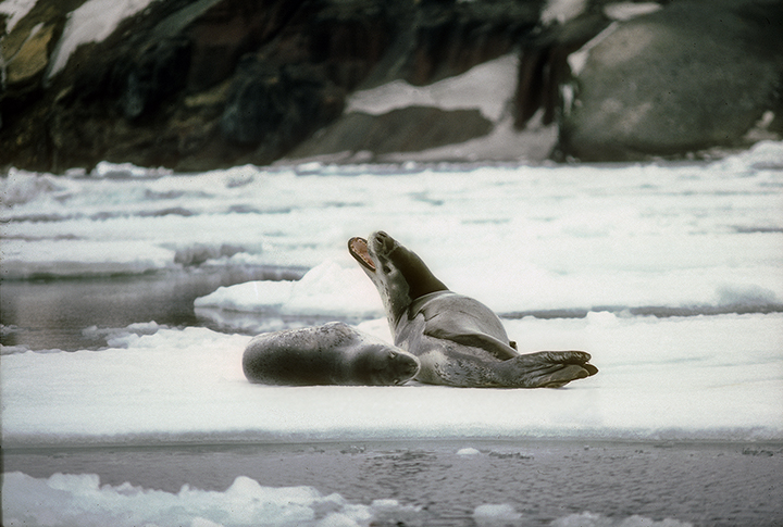 Female Leopard Seal and her pup on the sea ice